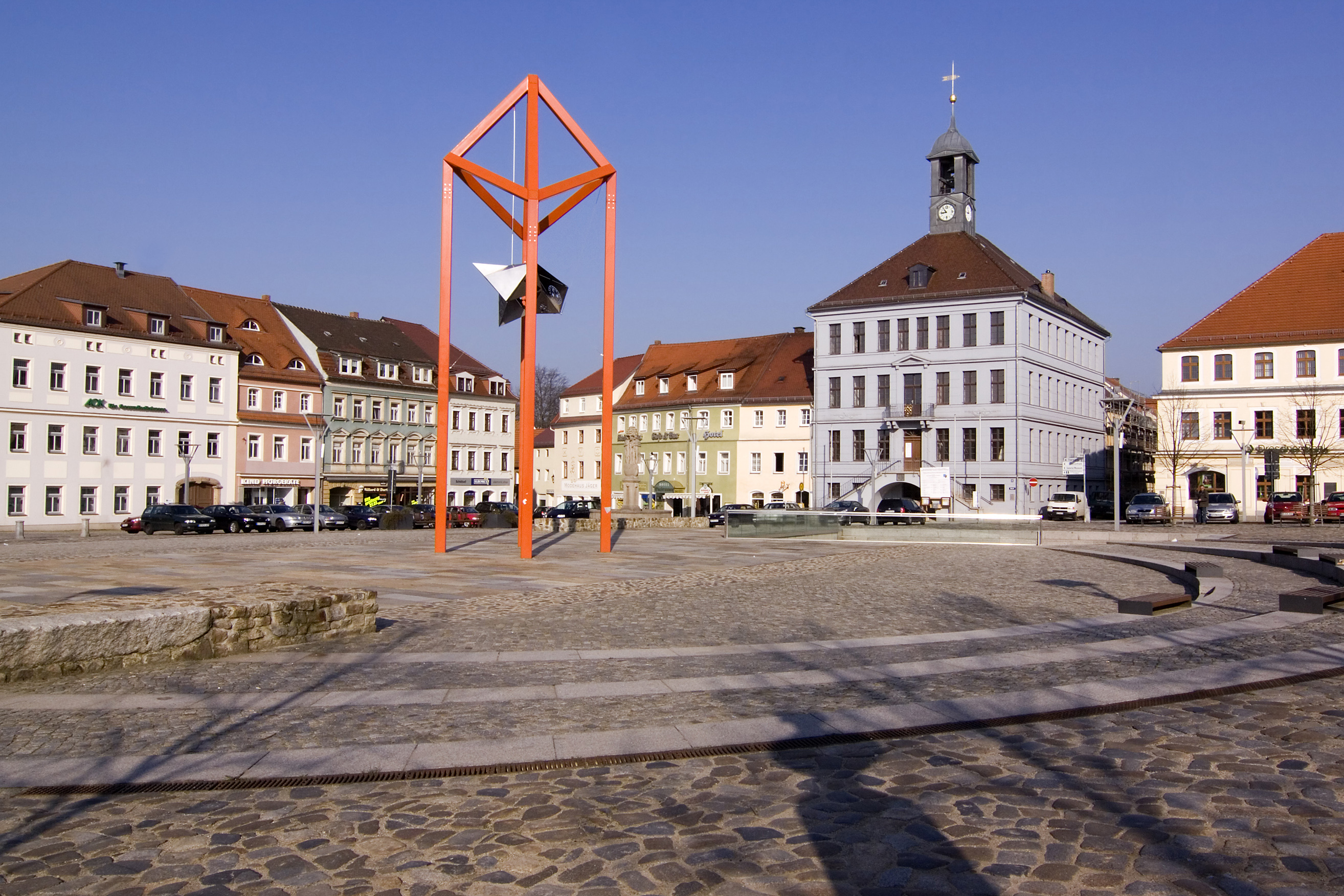 Bischofswerda, market place Altmarkt